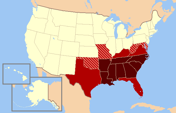 a map of the United States, Oklahoma striped